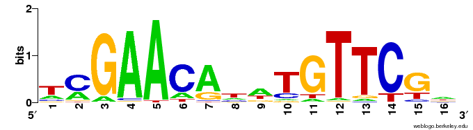 This is a sequence logo of the LexA-binding motif of Gram-positive bacteria. The logo was created from a list of experimentally-reported LexA-binding sites using the Weblogo server ( At each position, the height of the stack represents the information content (see Information theory) of the position, while the height of each letter is proportional to its frequency at that position in the collection of sites